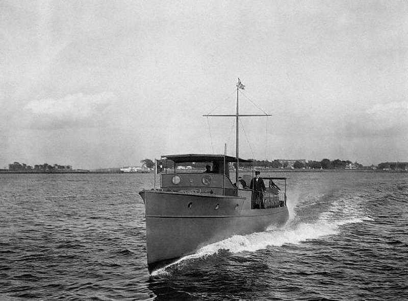 The motorboat Celeritas off City Island, the Bronx, New York, prior to her United States Navy service as the patrol vessel .